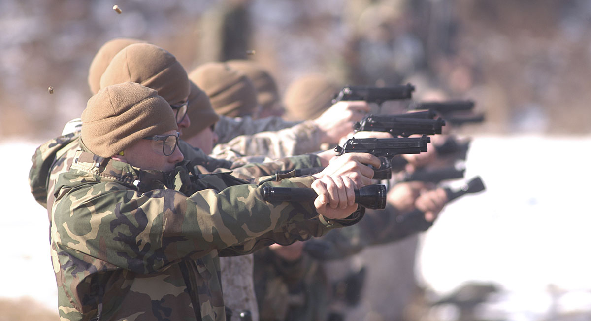 Marine Security Guard students perform rapid-fire exercises on the Department of State pistol qualification course Feb. 4 as part of their MSG graduation requirement.